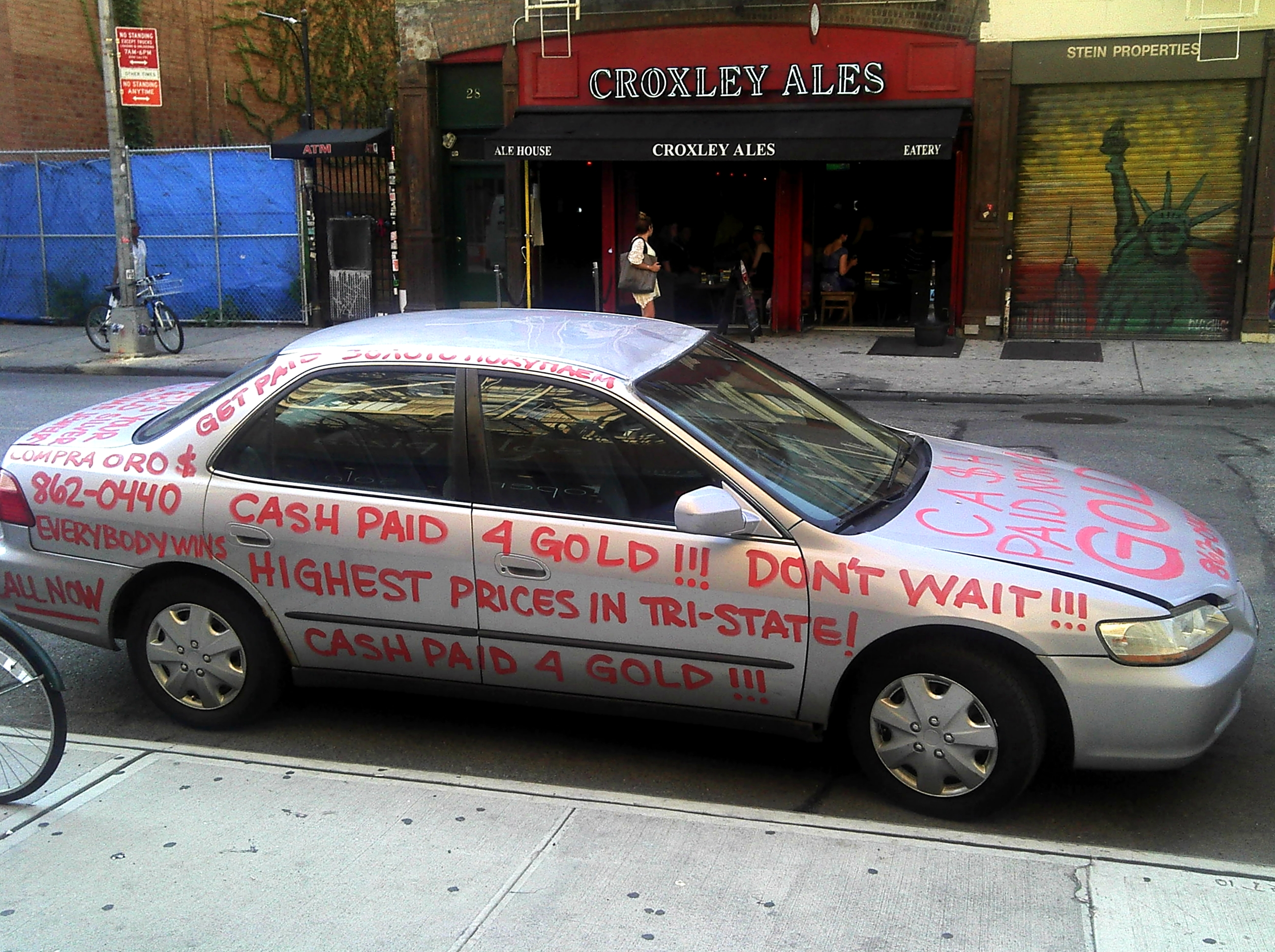 A beat up car on Avenue A in New York advertising gold purchasing services during the height of the gold price in 2011.